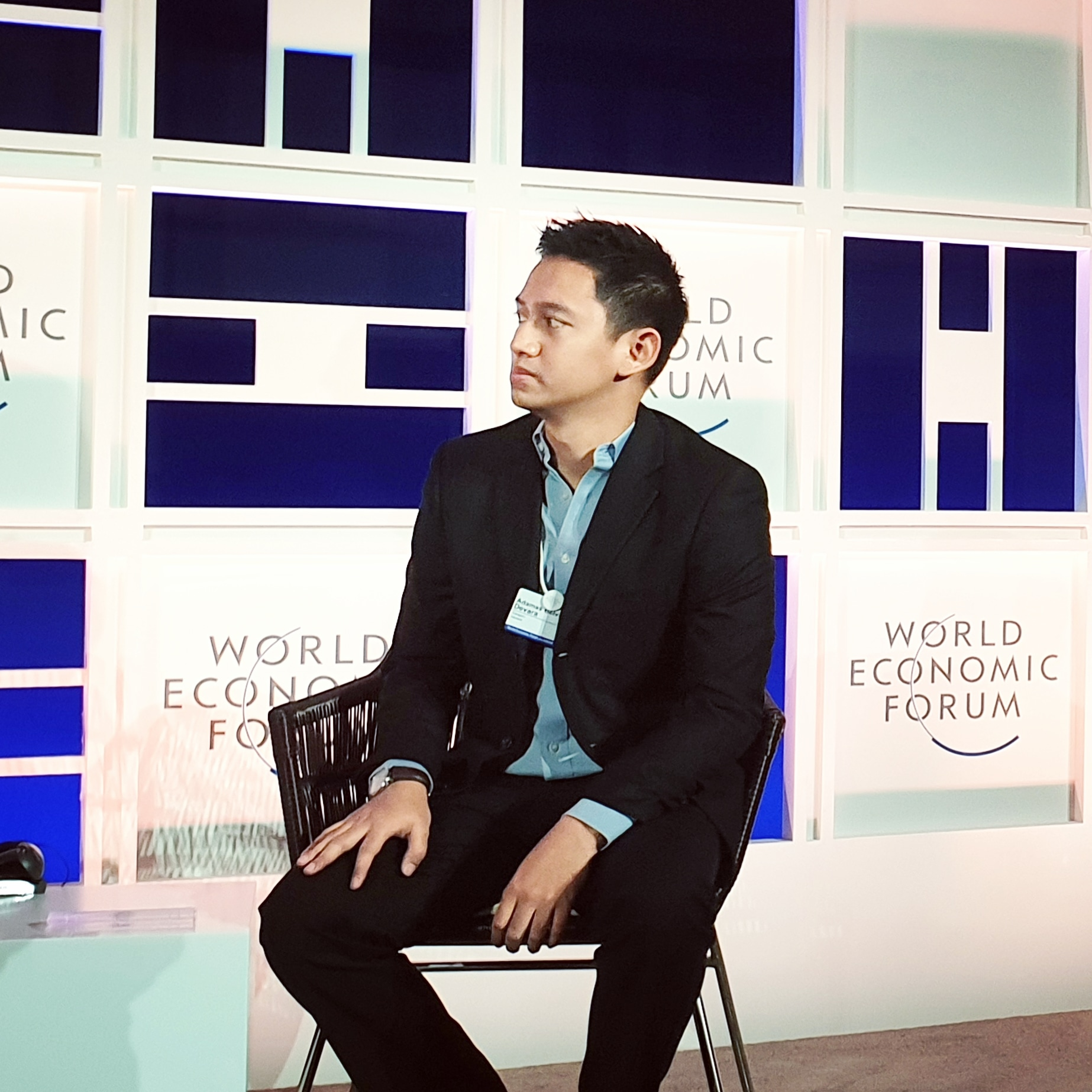 Belva Devara at the World Economic Forum 2018